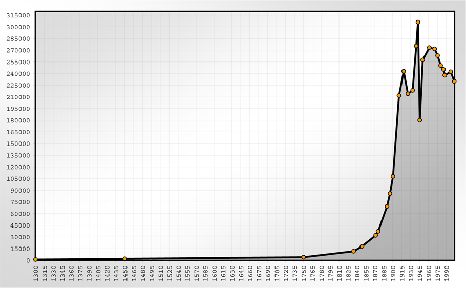 This image shows the population statistics of Kiel (Germany).